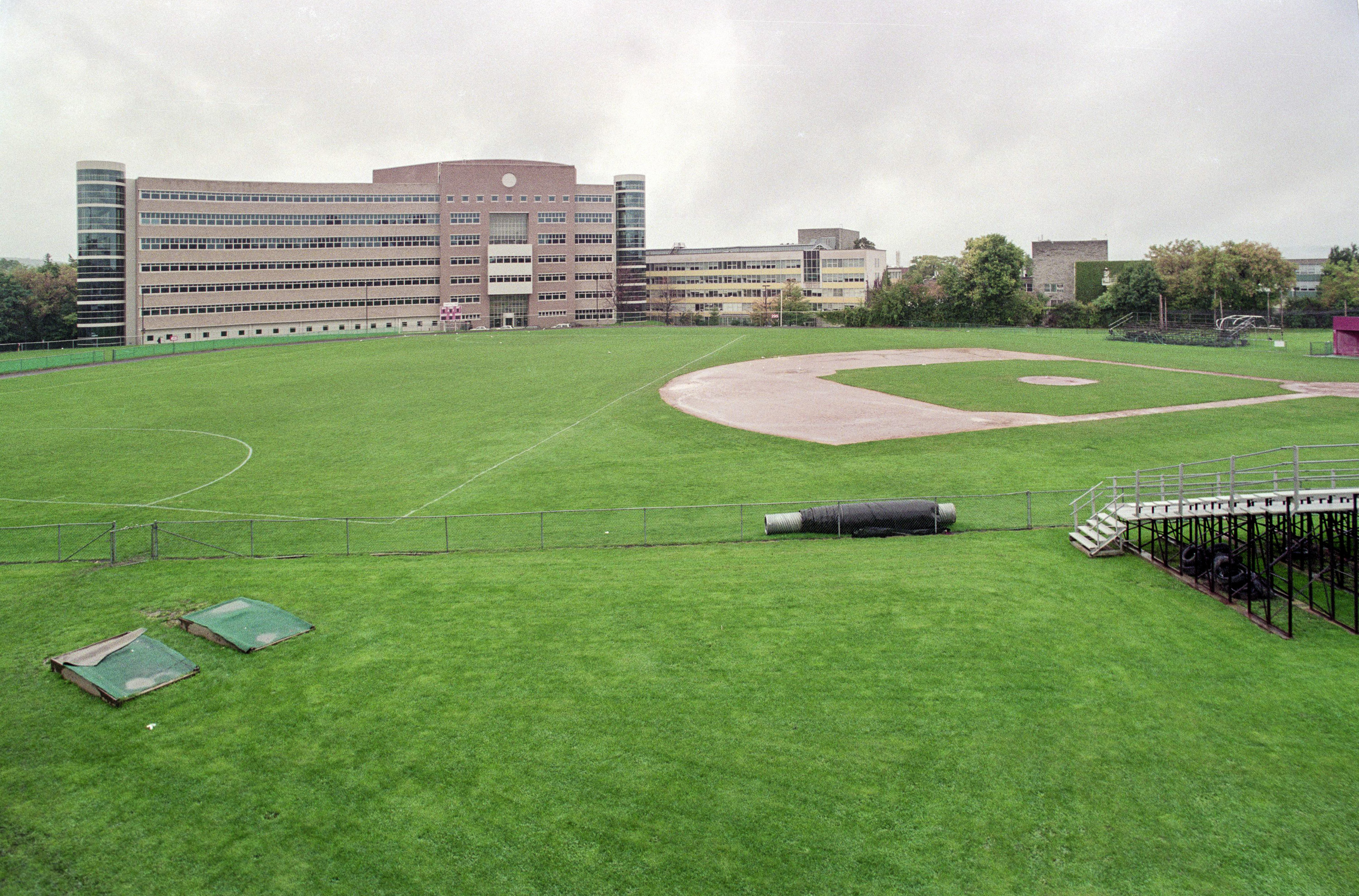 Hoy Baseball Field, Looking toward Rhodes Hall, and Upson Hall (before renovation). Cornell University, Fall 1994, film scan.